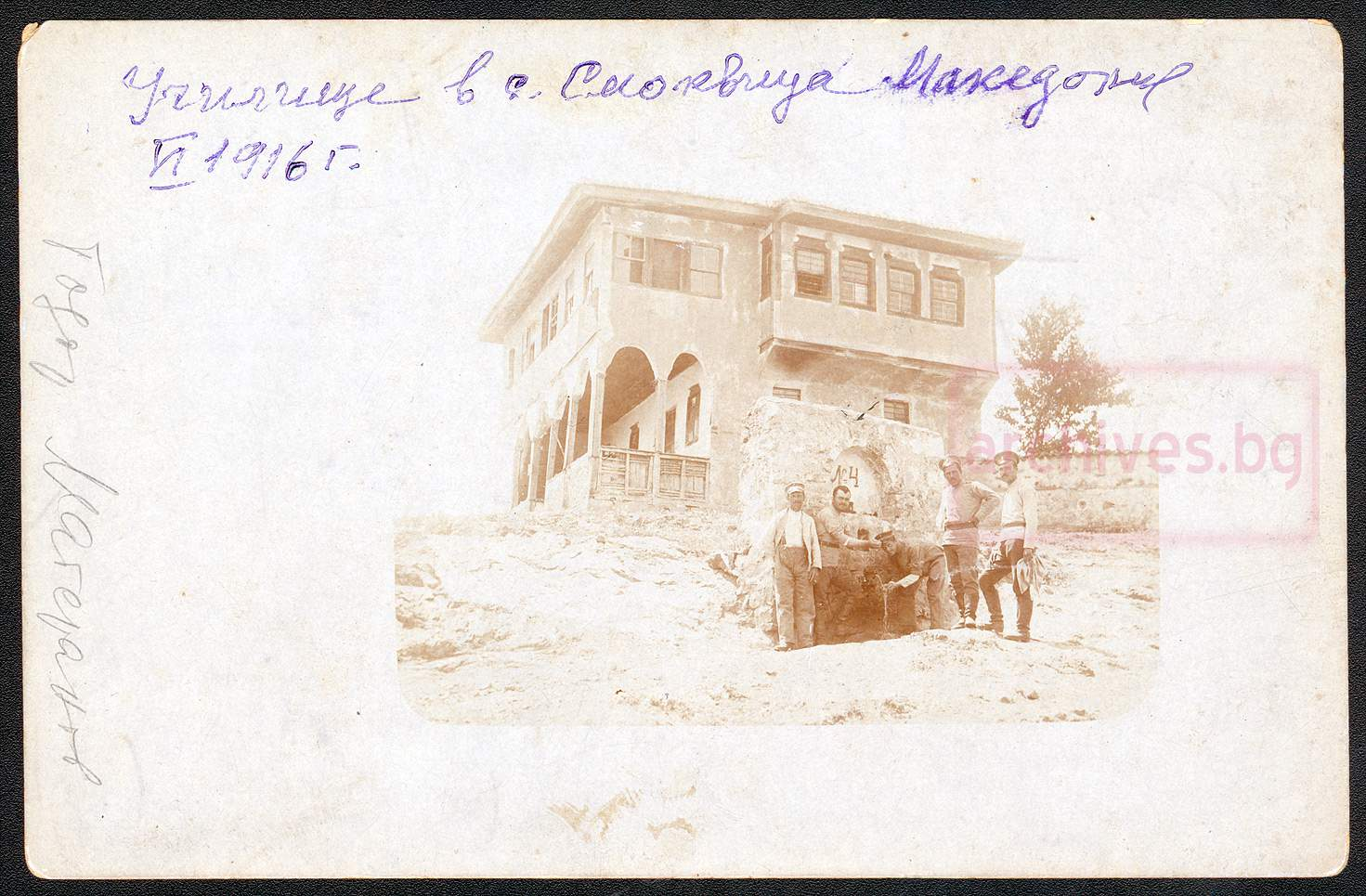 Smokvitsa_Bulgarian_School_in_June_1916